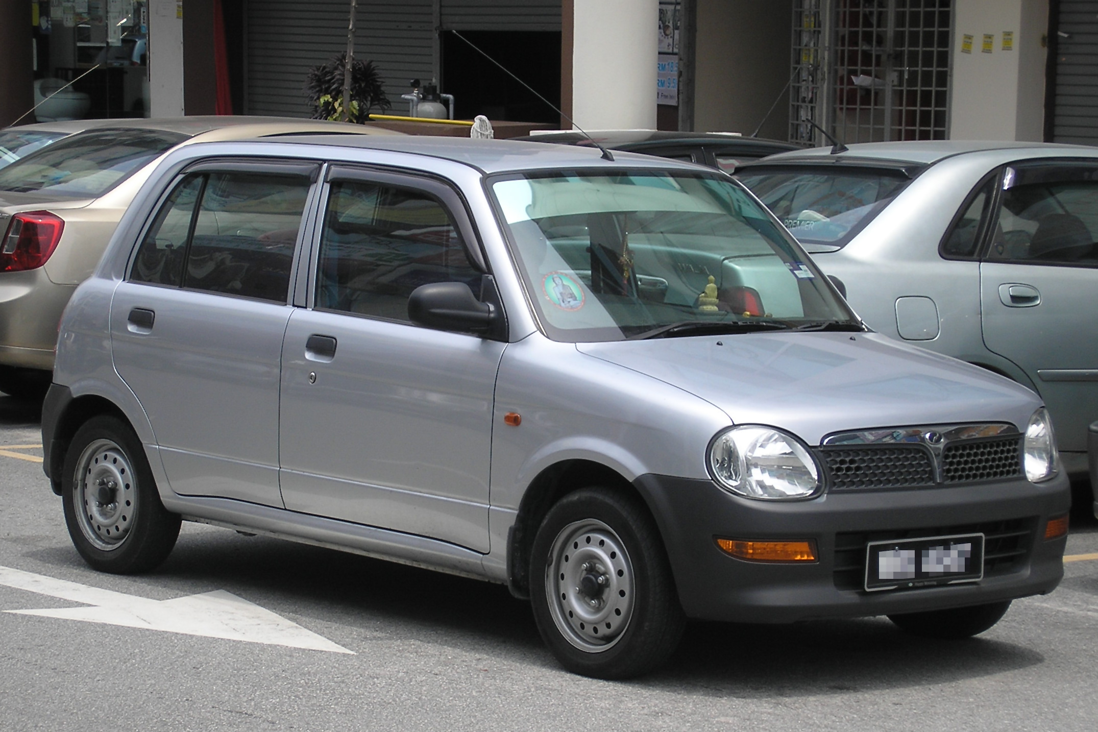 Front-side shot of a first facelifted but basic Perodua Kelisa (similiar to one Jeremy Clarkson blew up in Heaven and Hell (2005)), in Cheras, Kuala Lumpur, Malaysia.